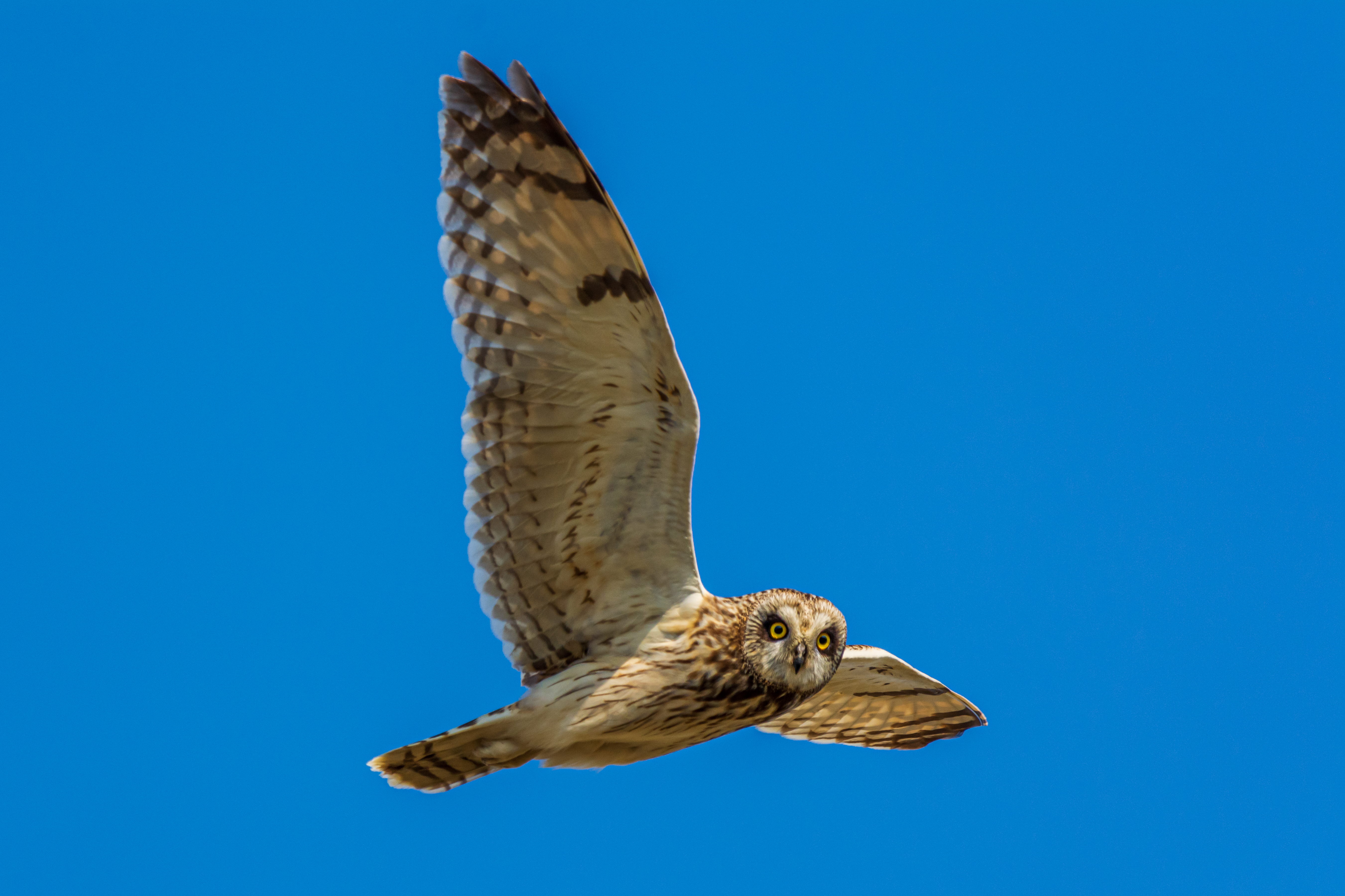 Sumpfohreule (Asio flammeus) - Spiekeroog, Nationalpark niedersächsisches Wattenmeer